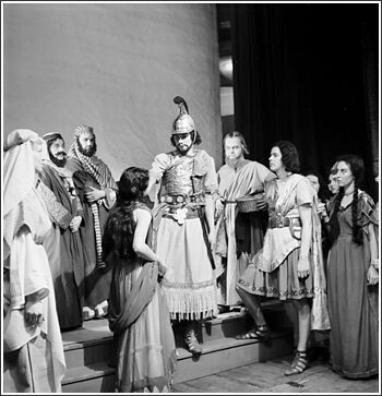 A scene from Johannes Linnankoski's Jeftan tytär (Jephta's daughter), played on the theater evening of the culture contest of Helsinki University.